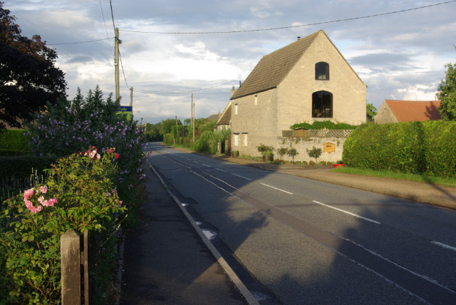 Upper Benefield Looking along the A427 Corby - Oundle road. The barn converted into a house is The Woolbarn.